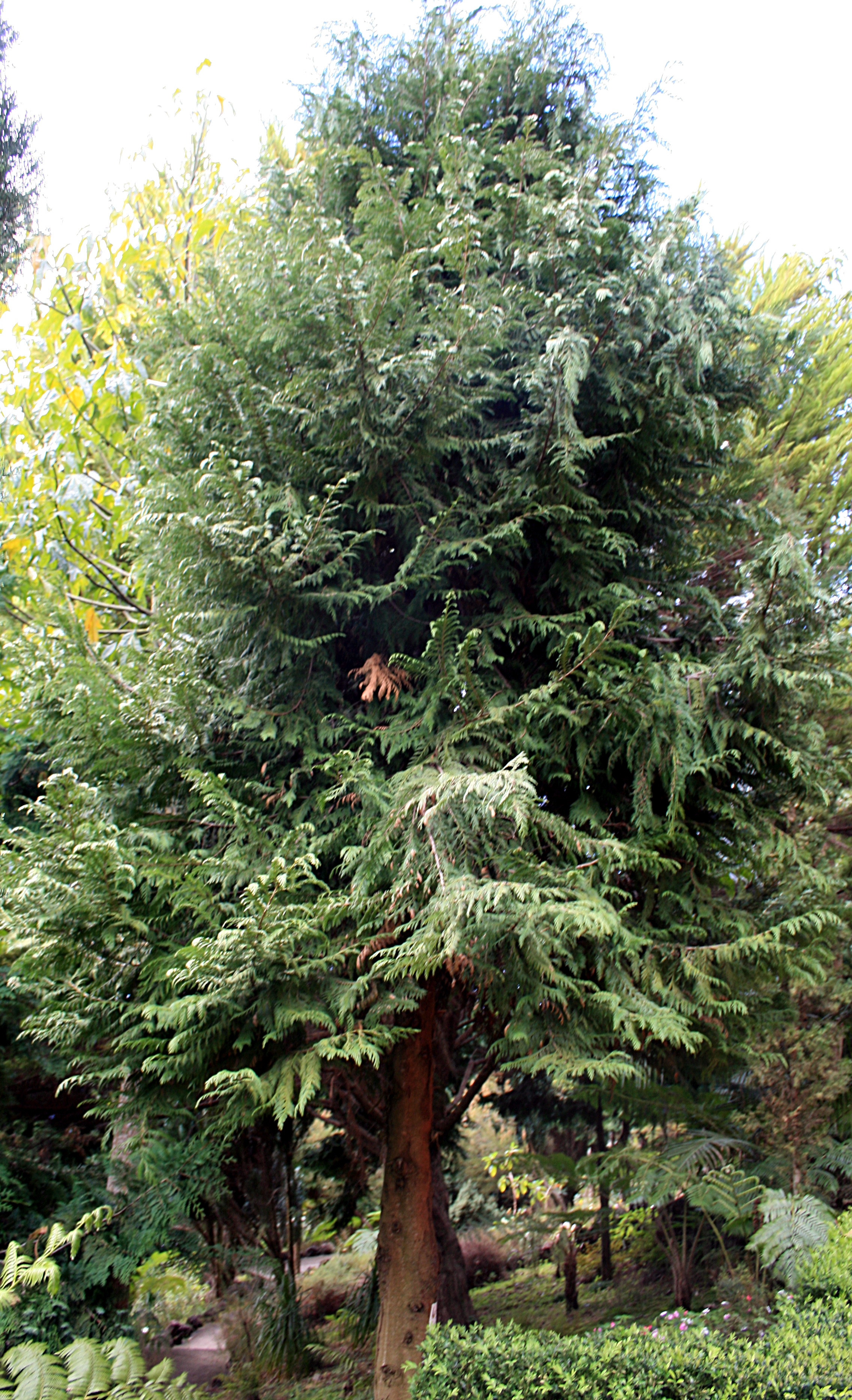 Monte_(Funchal)_-_Chamaecyparis_lawsoniana_(Lawsons_Scheinzypresse)